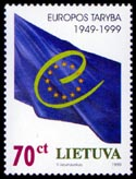 Stamp of Lithuania: 50th anniversary of the Council of Europe